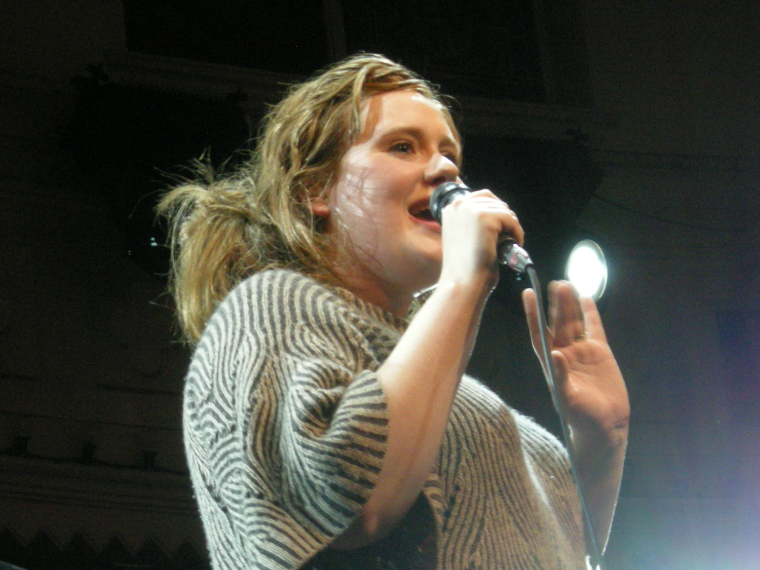 Adele - Paradiso Amsterdam 2008